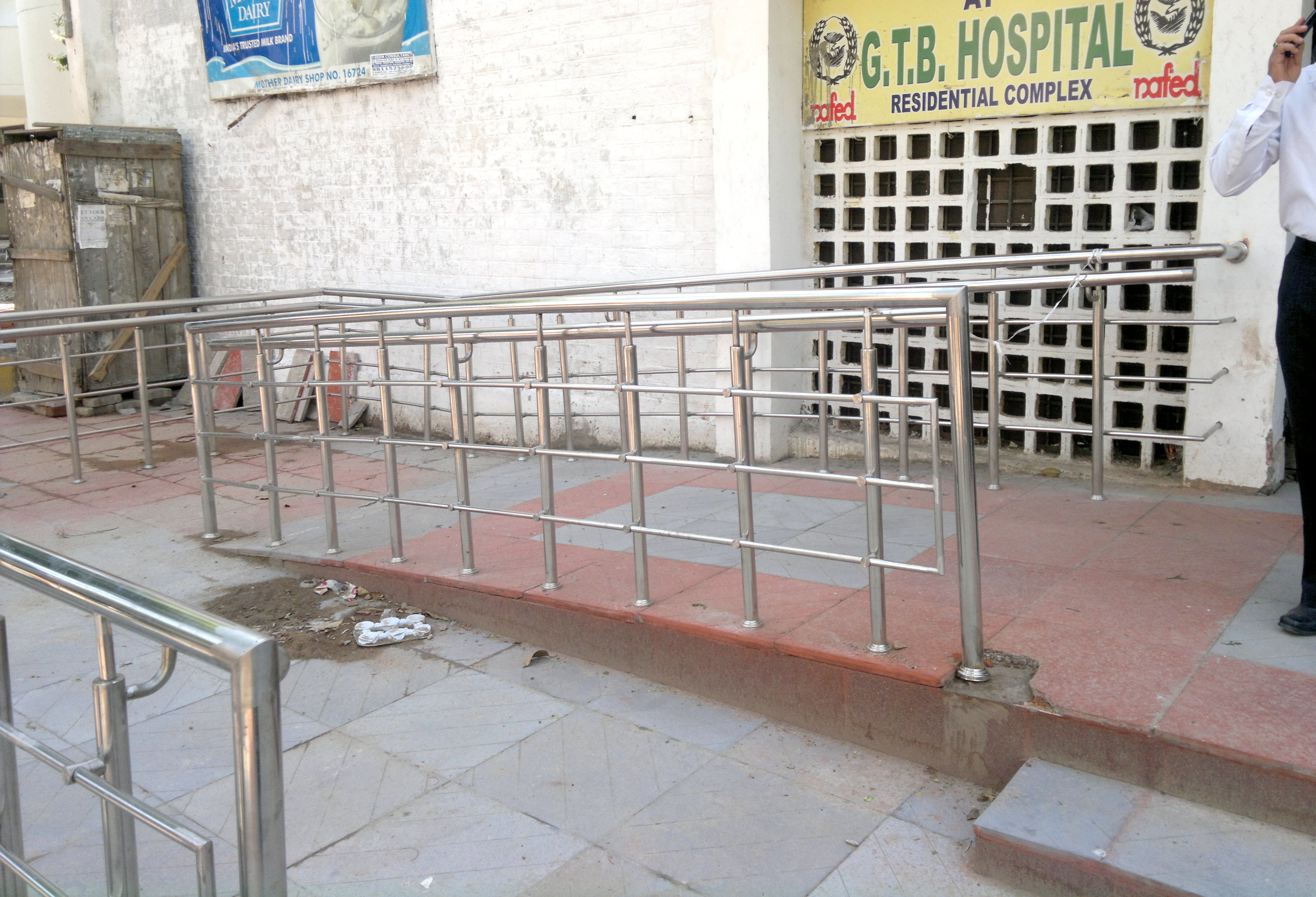 Entrance made accessible by Enabling Unit at GTB Hospital. Delhi